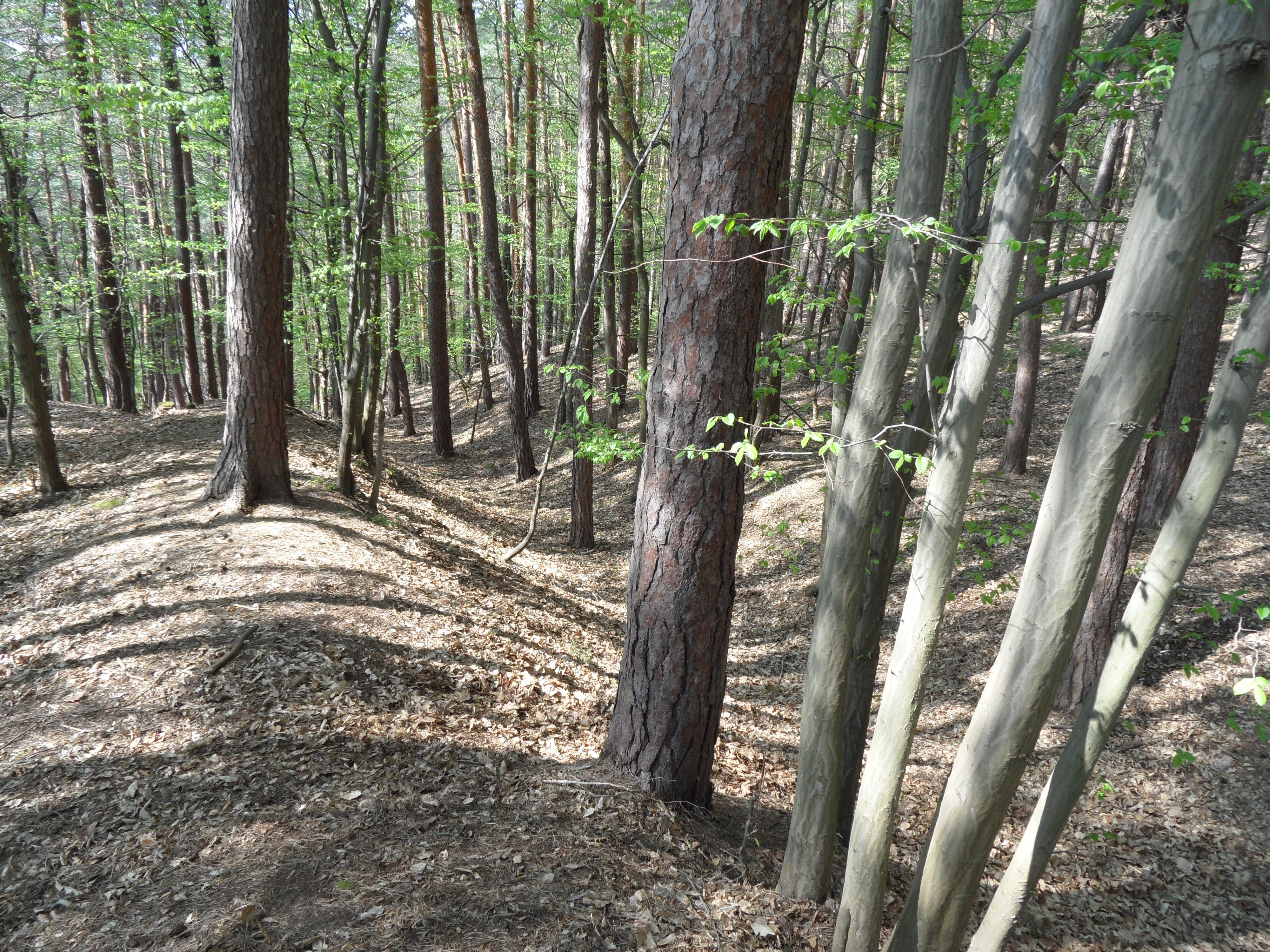 Medenický potok L4. Ancient Fortified Settlement (closest to Třebonín), Kutná Hora District, the Czech Republic.